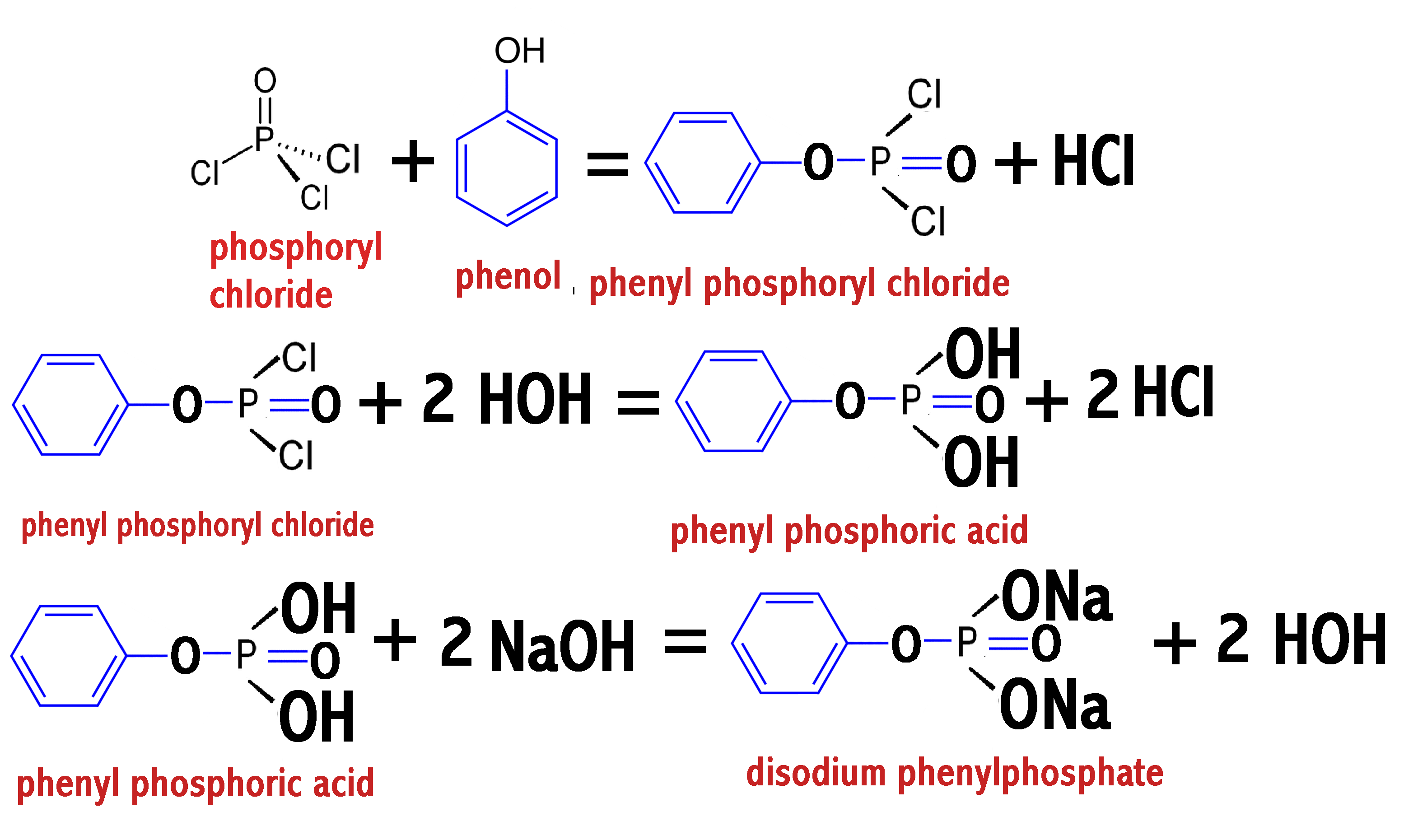 Synthesis of disodium phenylphosphate